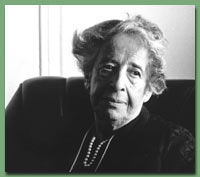 Hannah Arendt in 1975